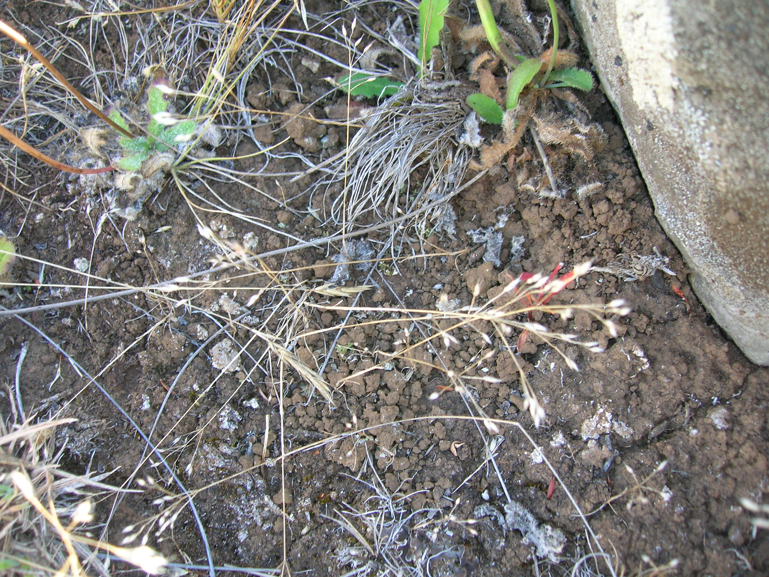 Aira caryophyllea (habit). Location: Maui, Waiale Gulch